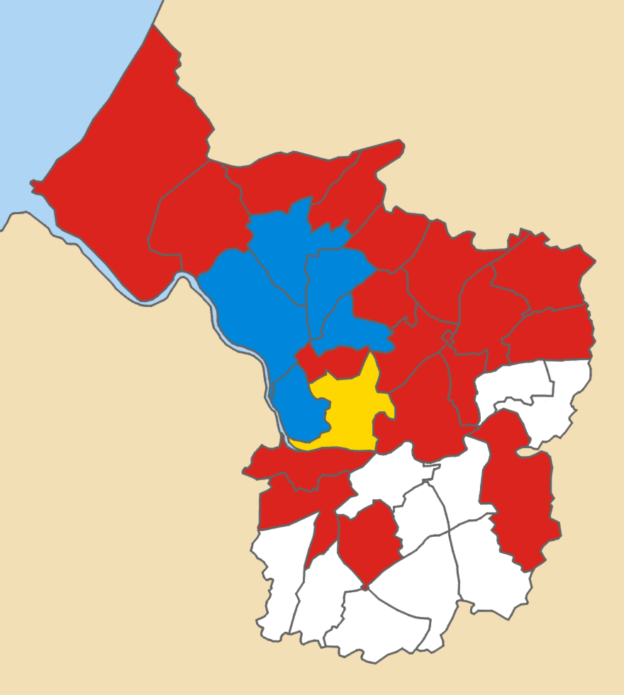 Results of the 1990 local elections in Bristol Colours: Conservative Labour Liberal Democrat No election in 1990